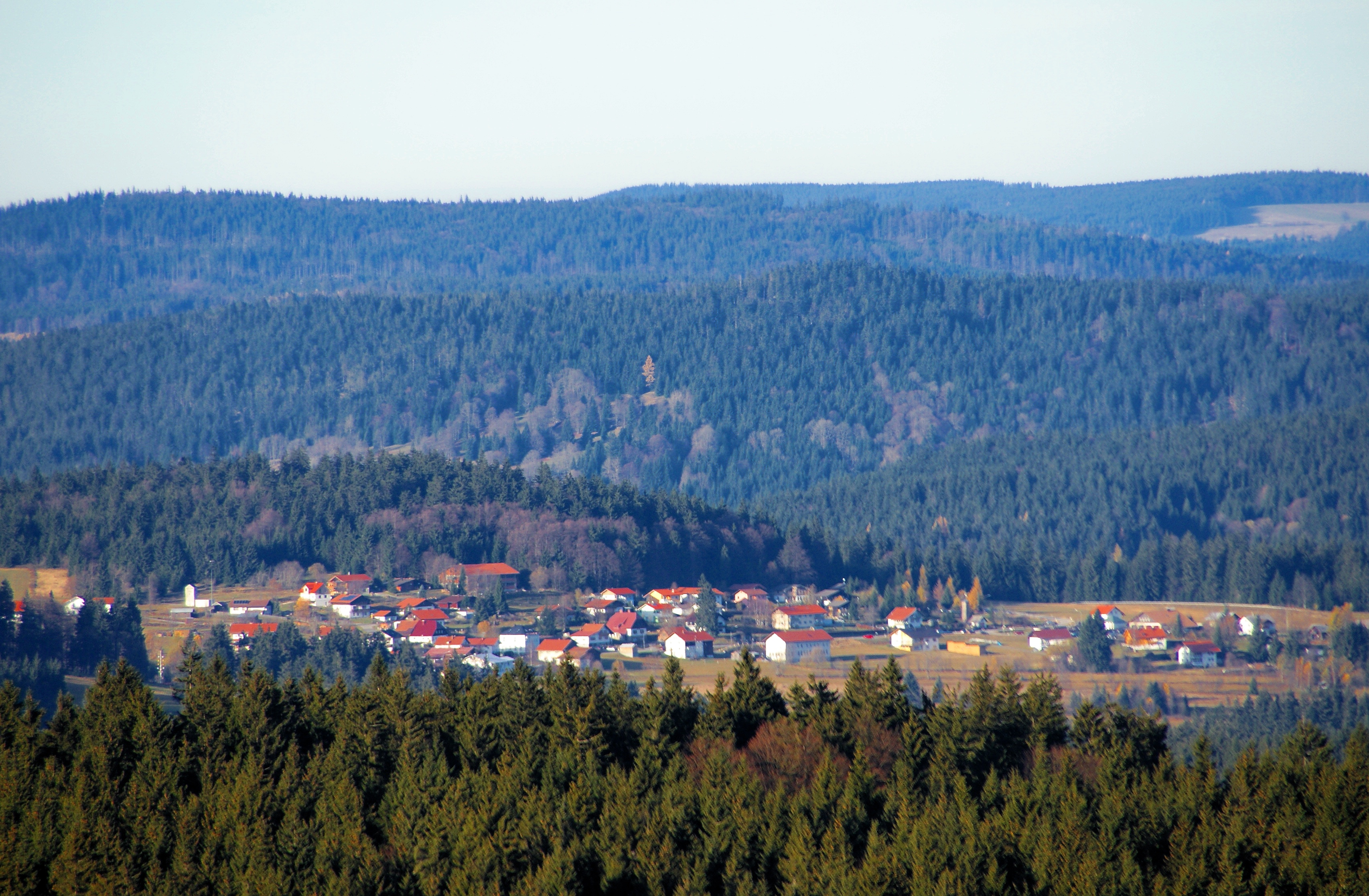 Philippsreut, Lower Bavaria